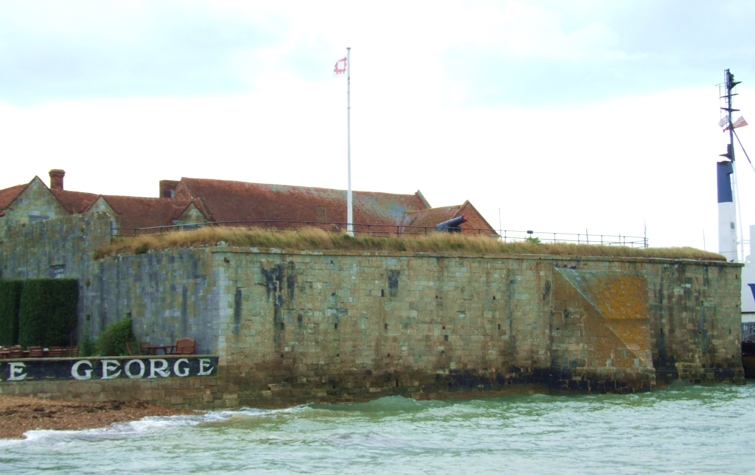 Yarmouth castle, Yarmouth, Isle of Wight, UNITED KINGDOM